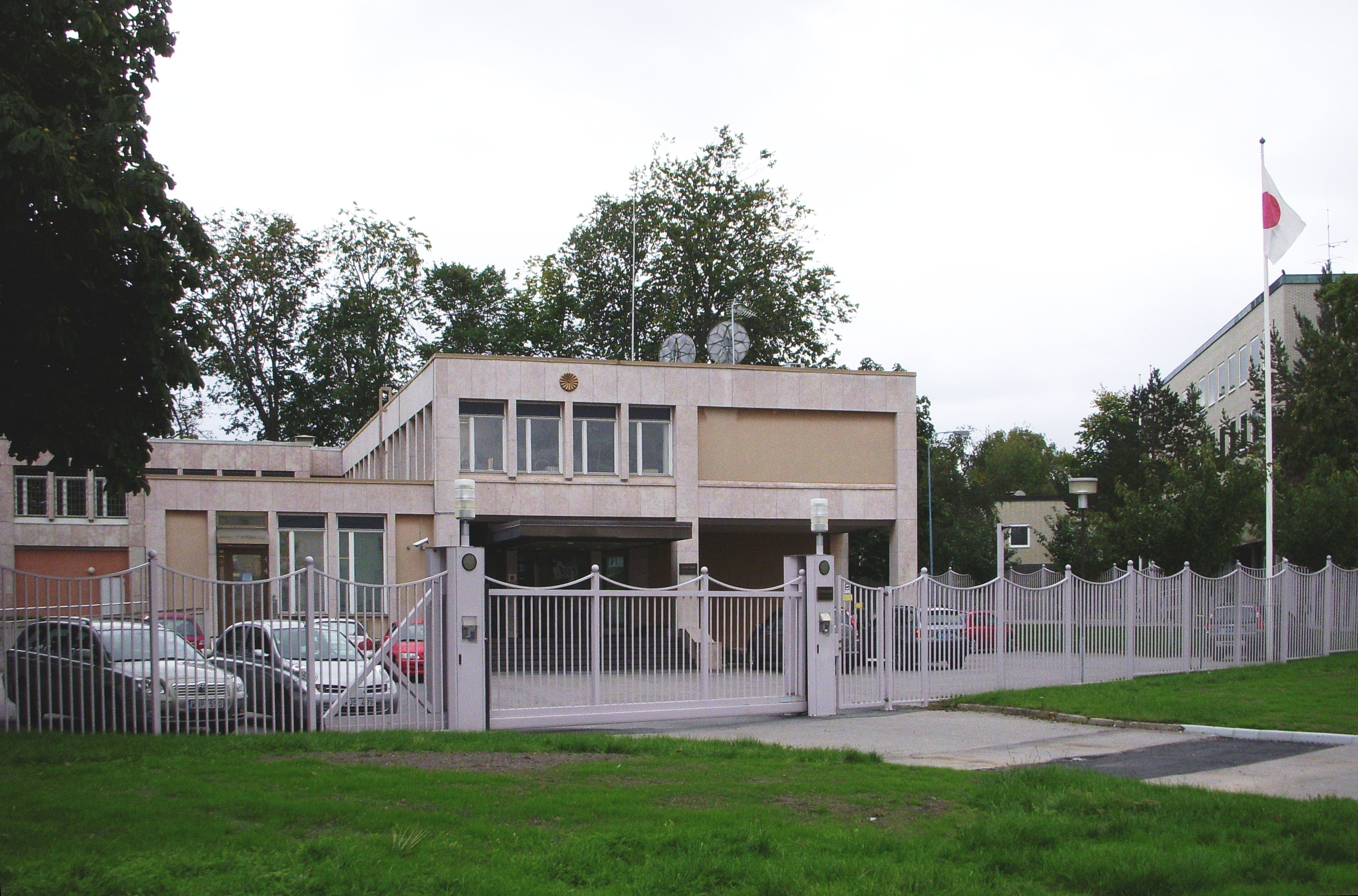 Embassy of Japan in Stockholm